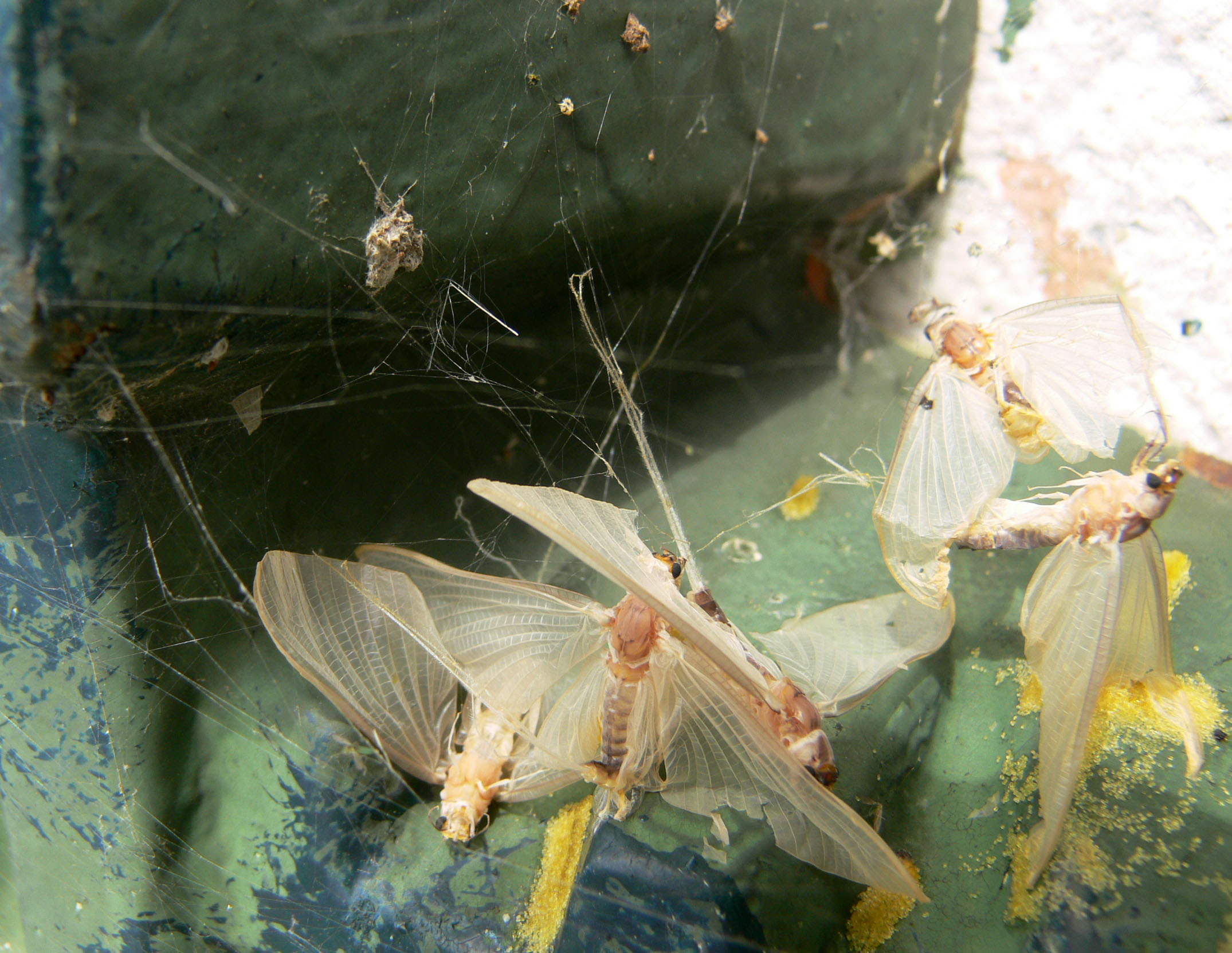 Lighting and architectural elements of the upper part of the Briare aqueduct (deck riveted steel and stone, the stone base has Designed by Gustave Eiffel), which passes above the Loire (France, Region Centre, Department of Loiret) perpendiculairment to this one. Example of impact of the light pollution "on the Loire River, which is often described as the last wild river in France. More lights are near the center and the axis of the river Loire (the bridge that crosses it at right angles), more lights attract insects at night just to emerge from the water (NB: Some of these insects (midges, caddisfly s, stonefly s including Ephemeroptera) are considered "bioindicators" indicating a good quality of water, and are rapidly declining in France since the early twentieth century). On this bridge, the further away to the right or left banks of the Loire, under the lights attract insects (which shows that the quality of canal water is bad, and that insects are only from Loire). The amount of cobwebs, the number of spiders and the number of bodies are clues to the amount of trapped insects and, since every morning wasps come - sometimes hundreds - "steal" the spiders on their canvas, part of dead insects they were killed and stored in a sheath of silk in the night. Because of the heat lamps and their intensity, these spiders have a food unusually prolific, and they are unusually numerous. This phenomenon seems to be what ecologists call a "ecological trap" in particular due to the phenomenon known as Pollution polarized light (which may explain why, as seen in this photo ephemeris lay their eggs on the painting of the mast lights instead of laying in the water). Bats, fish and shellfish may also be affected by this light.